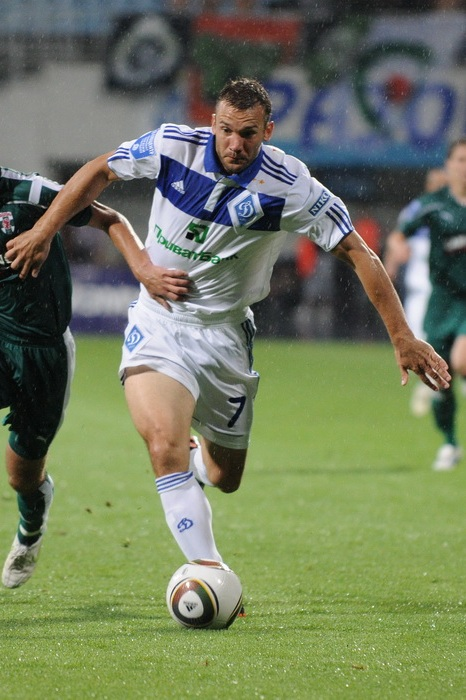 Andriy Shevchenko Players of Dynamo Kiev is Ukraine